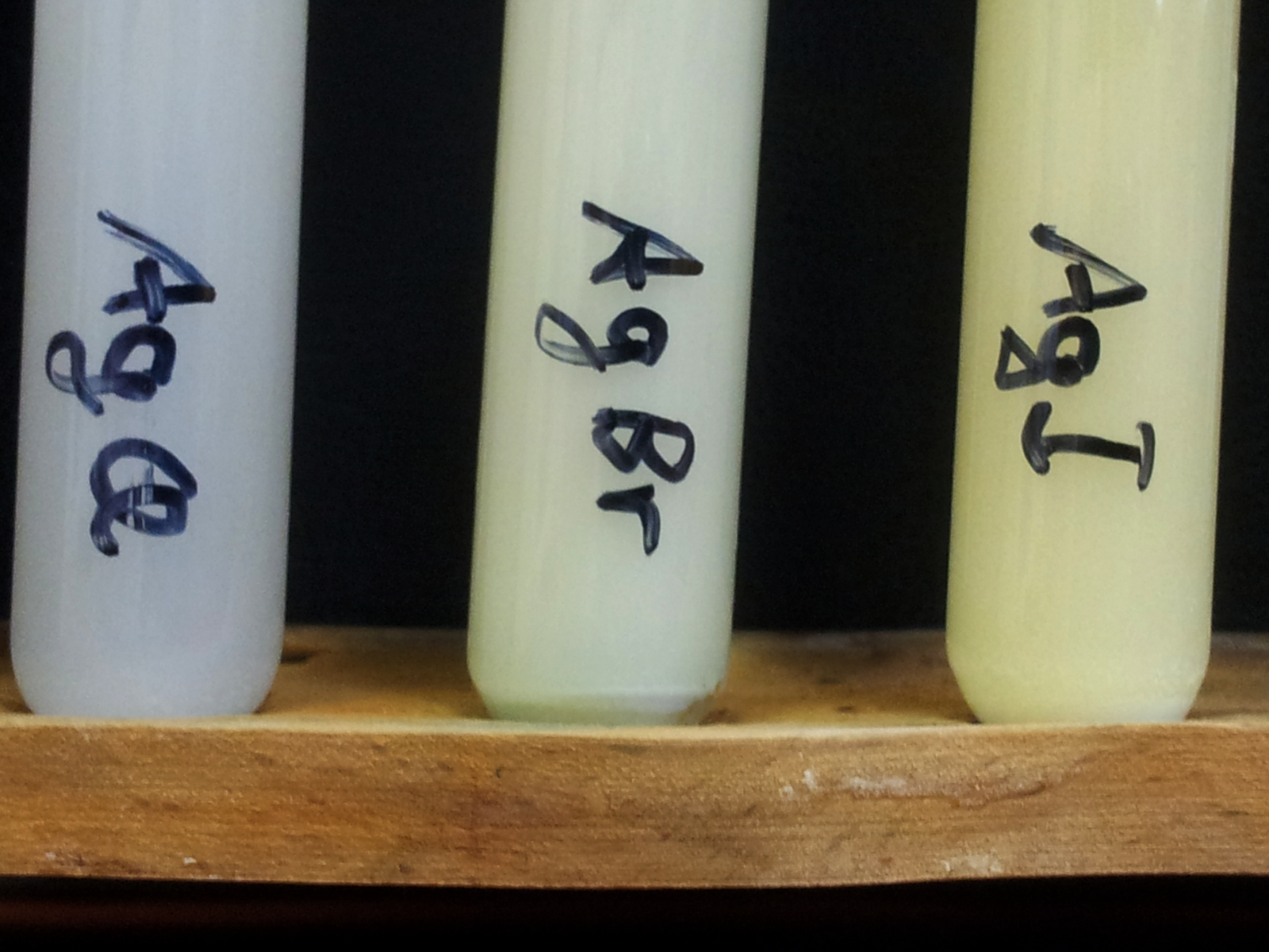 Silver(I)halogenide-precipitates. From left to right: Silver chloride, silver bromide, silver iodide.